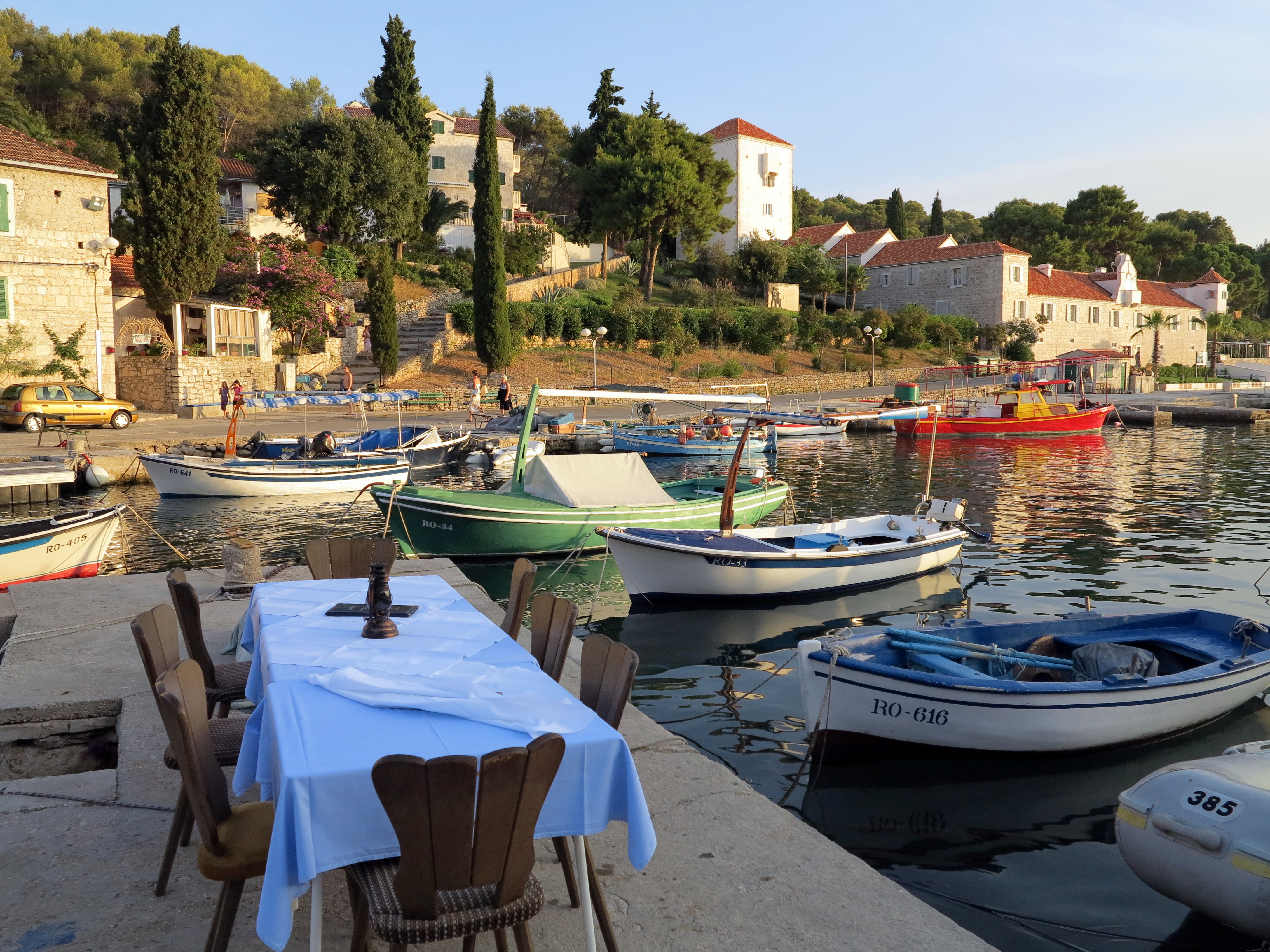 Old port of Maslinica on the island Šolta / Croatia / Adriatic Sea.